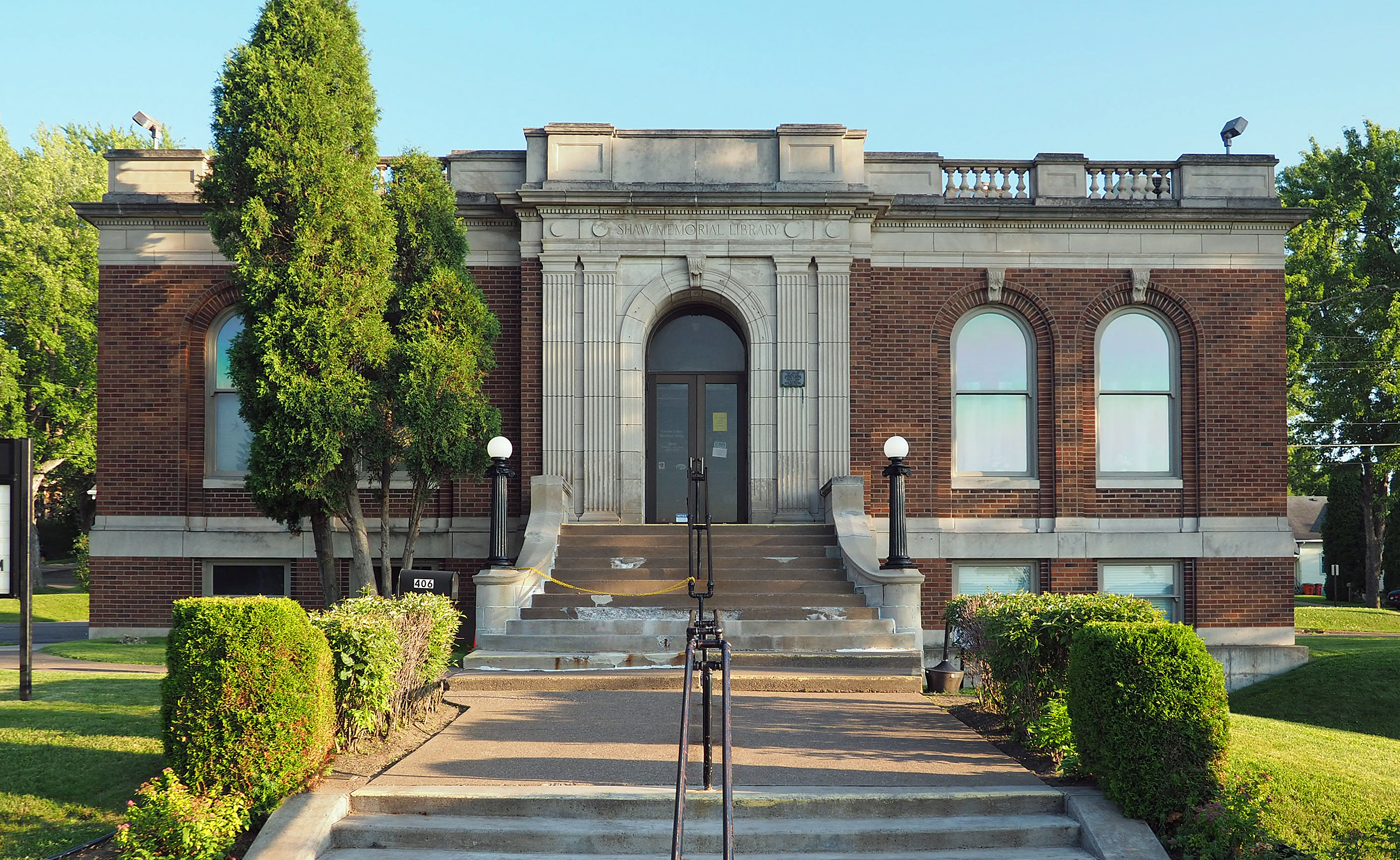 Shaw Memorial Library (now headquarters of the Carlton County Historical Society), 406 Cloquet Ave, Cloquet, Minnesota, USA. Viewed from the north.